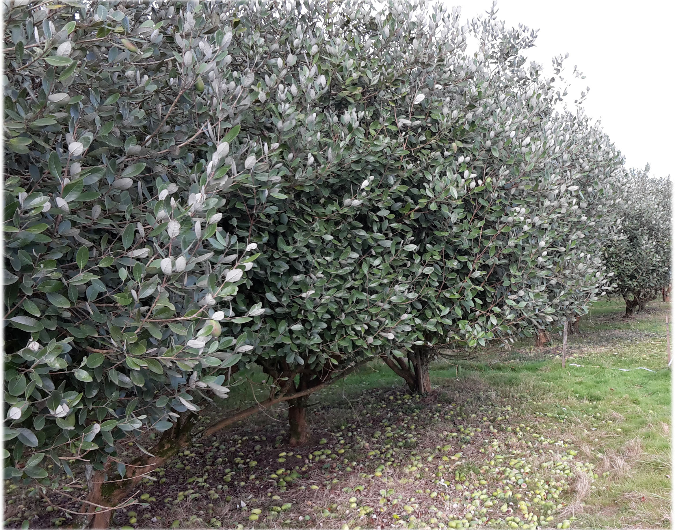 Feijoa orchard in the Dax, Landes, France, end of October, with fallen ripe fruit, which is ready to be picked and eaten.